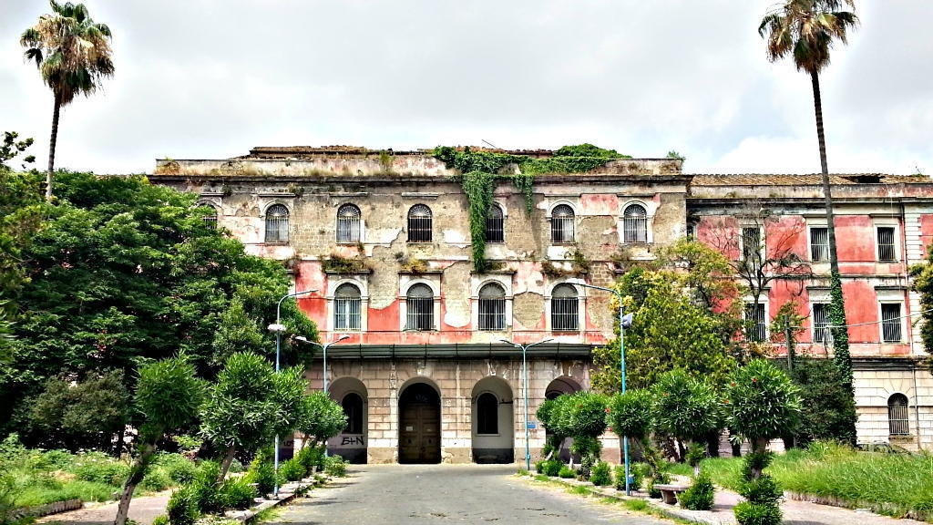 Picture about Maddalena, Aversa.